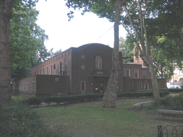 Christ Church, Blackfriars Road The first church on this site was erected in 1671 by John Marshall. His bequest lives on not only in a charity supporting city churches but also ownership of the church site (unusually for an Anglican parish church, the Rector does not 'own' the church). The second building of 1741 survived (with alterations and extensions) until World War 2. The present, smaller church was built on part of the site in 1959.